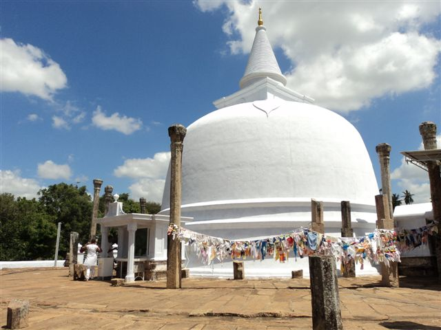 Lankarama Dagaba in Anuradhapura, Sri Lanka